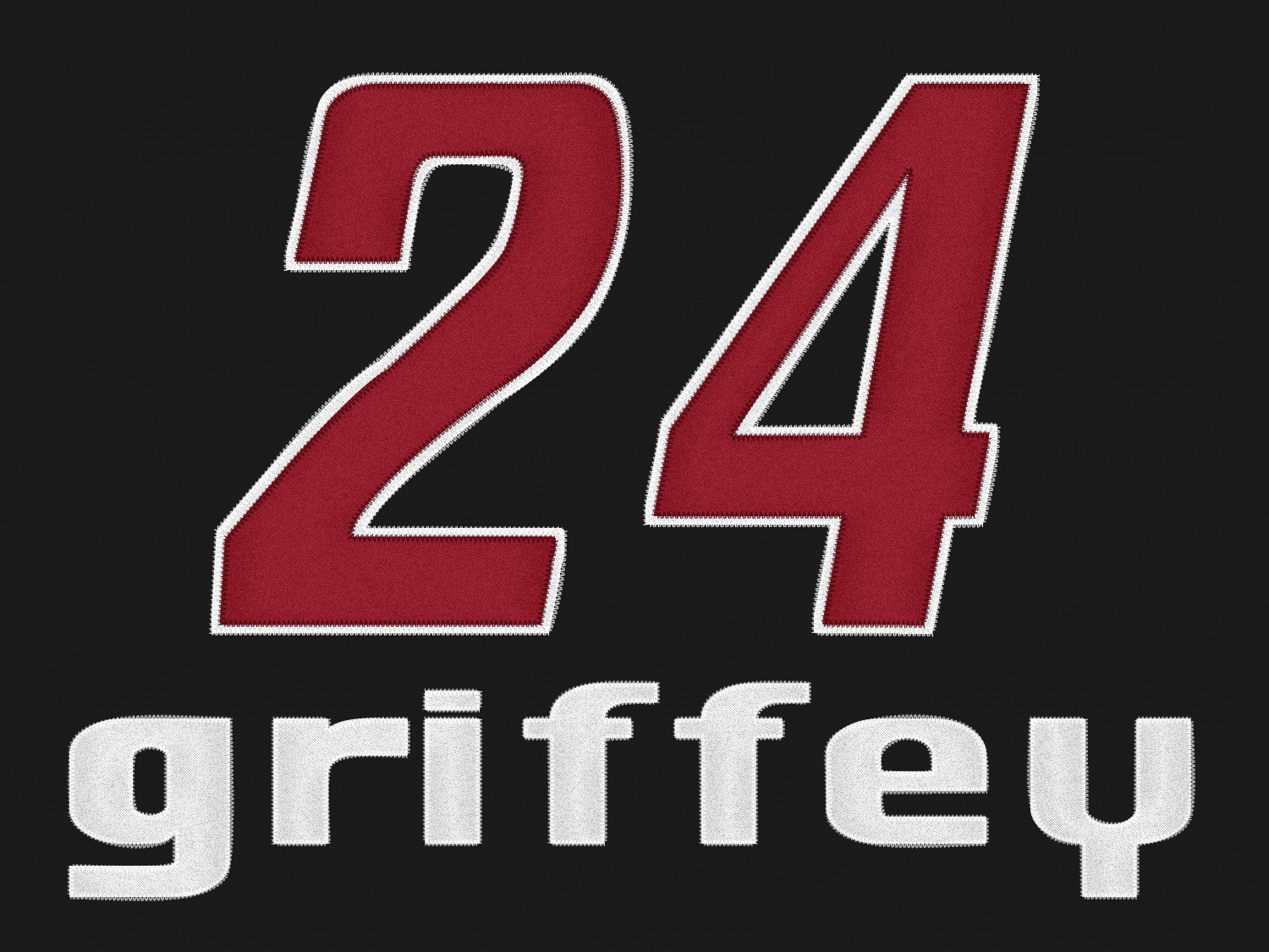 Replicated uniform worn by Ken Griffey during the Turn Ahead the Clock promotion.